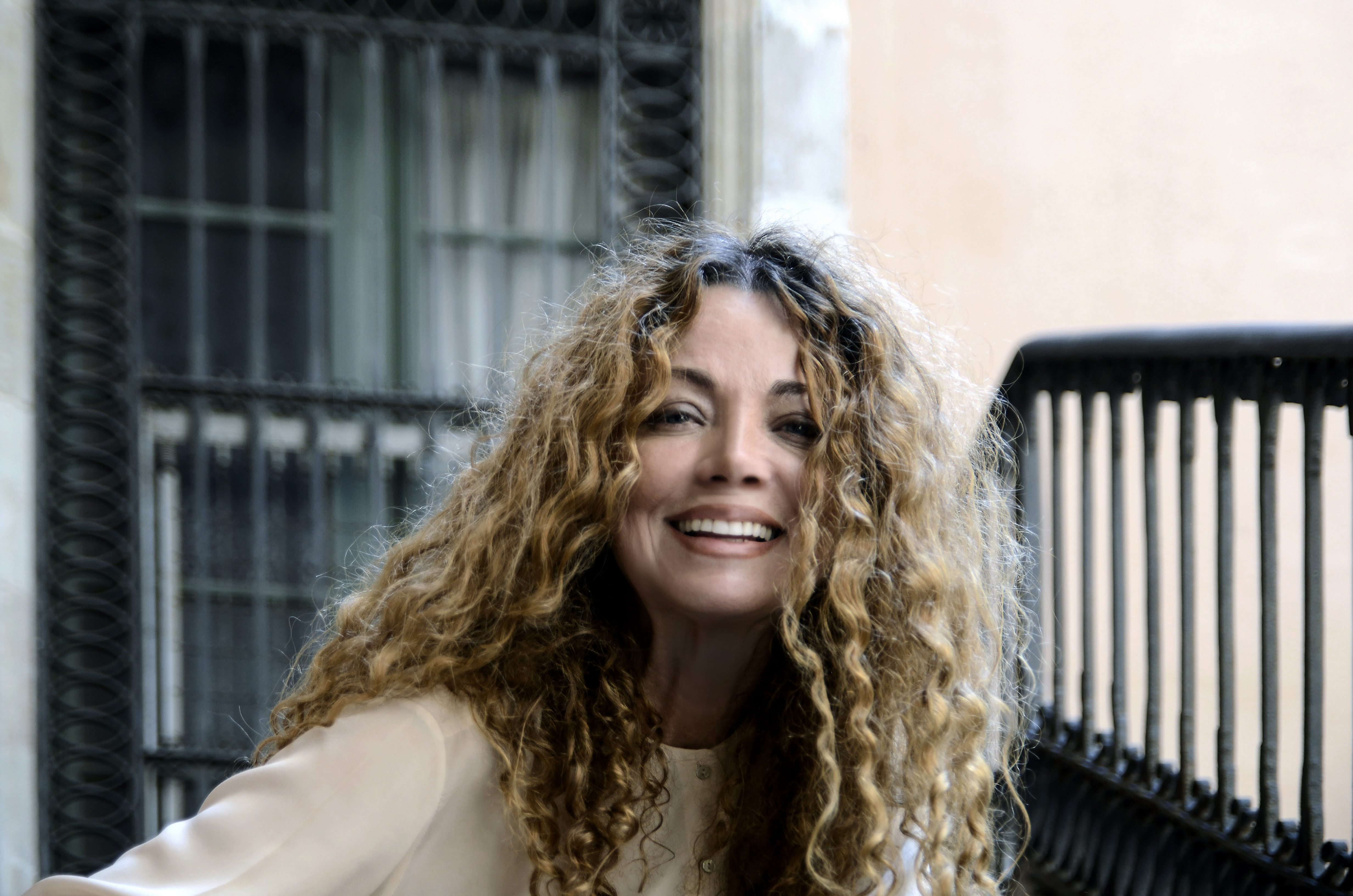 Colombian writer and poet Ángela Becerra in 2014